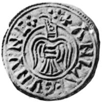 The obverse of a penny minted at York in the reign of Amlaíb Cuarán (Anlaf Sihtricson). original caption (Grueber p. 20): Anlaf (Quaran). ᛭ ANLAF CVNVNC᛬ Raven, wings displayed, head to l. Rev. ᛭ AÐELFERD MINETRER (Mineter=Monetarius?). Small cross pattée in the centre. AR·8. Wt. 19·8. The obverse type appears to represent the Viking war standard, the raven, probably derived from the Roman aquila.